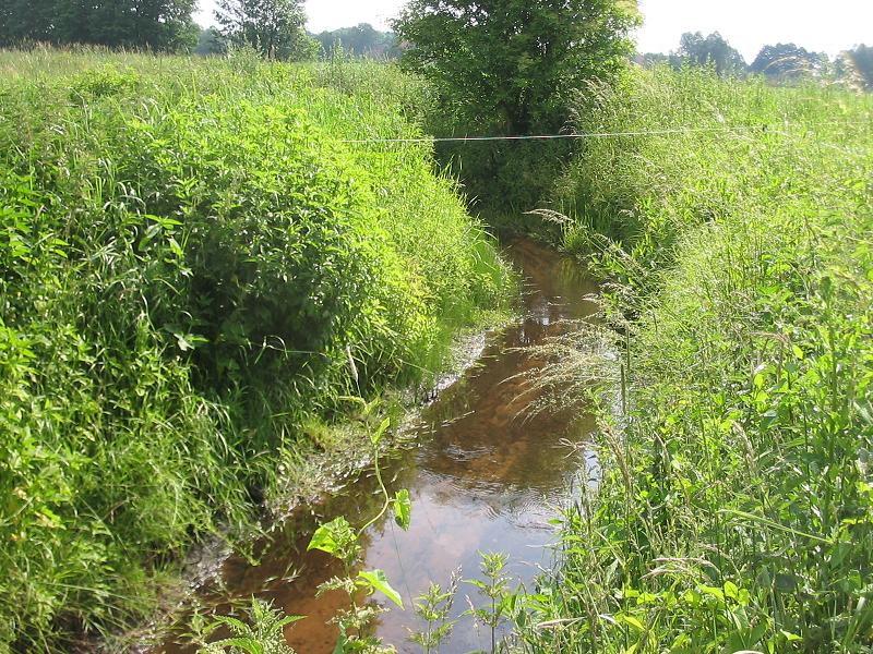 One of the found-streams of the Baitzer Bach nearby Preußnitz. The village Preußnitz is a part of the village Kuhlowitz, an incorporated part of the town Belzig in Brandenburg, Germany.